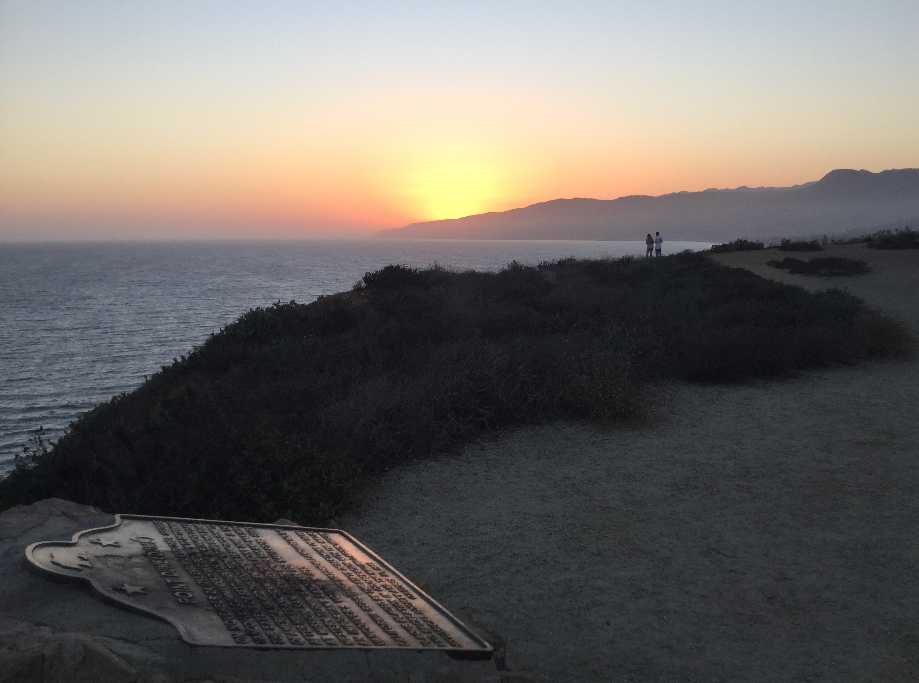 Point Dume Monument at sunset